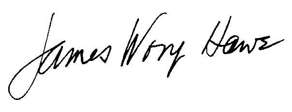 James Wong Howe Signature